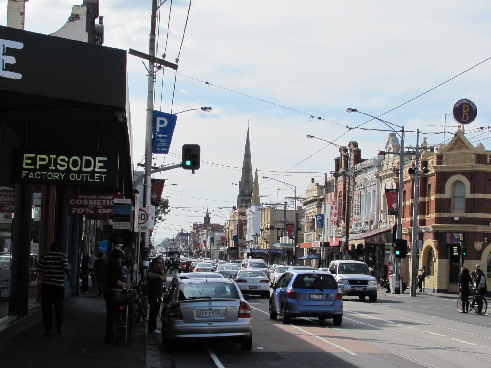 Sydney Road (an early stage of the Hume Highway) as a "main street" in the suburb of Brunswick, Victoria, Australia.